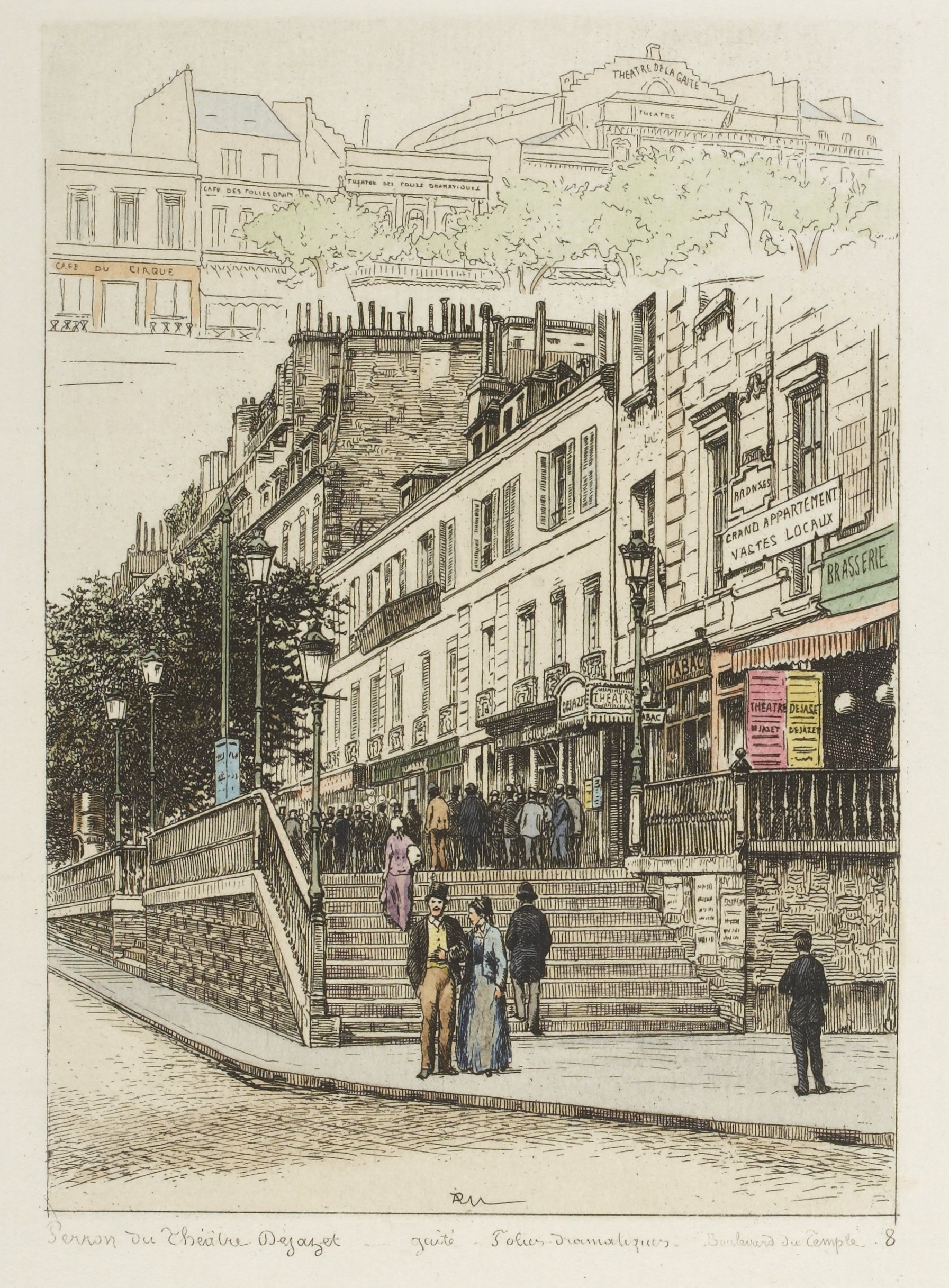 The steps of the Théâtre Déjazet. Hand-coloured etchings of 1870s street scenes in Paris by A.-P Martial